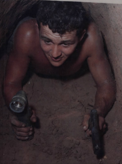 SGT Ronald A. Payne (Atlanta, GA) Squad Leader, CO A, 1st BN, 5th Mechanized Infantry, 25th Infantry Division, moves through a tunnel in search of Viet Cong and their equipment, during Operation "Cedar Falls" in the Hobo Woods about 25 miles North of Saigon. 24 January 1967